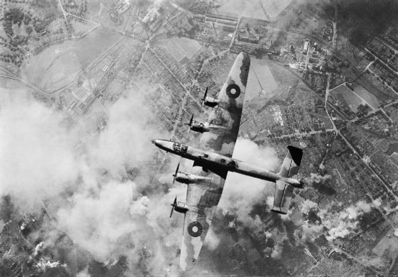 A Handley Page Halifax of RAF Bomber Command over the target during a daylight raid on the oil refinery at Wanne-Eickel in the Ruhr, 12 October 1944. A Handley Page Halifax of No 6 Group flies over the smoke-obscured target during a daylight raid on the oil refinery at Wanne-Eickel in the Ruhr. 111 Halifaxes of 6 Group and 26 Avro Lancasters of No. 8 Group took part in the raid which destroyed a chemical factory but only inflicted minor damage on the refinery itself.